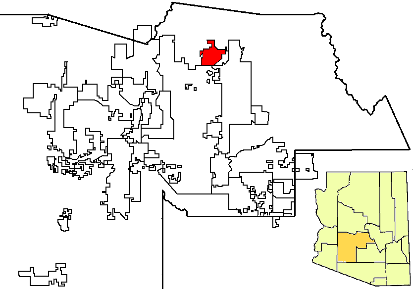 Map of approximate corporate boundary of Cave Creek, Arizona, within Maricopa County